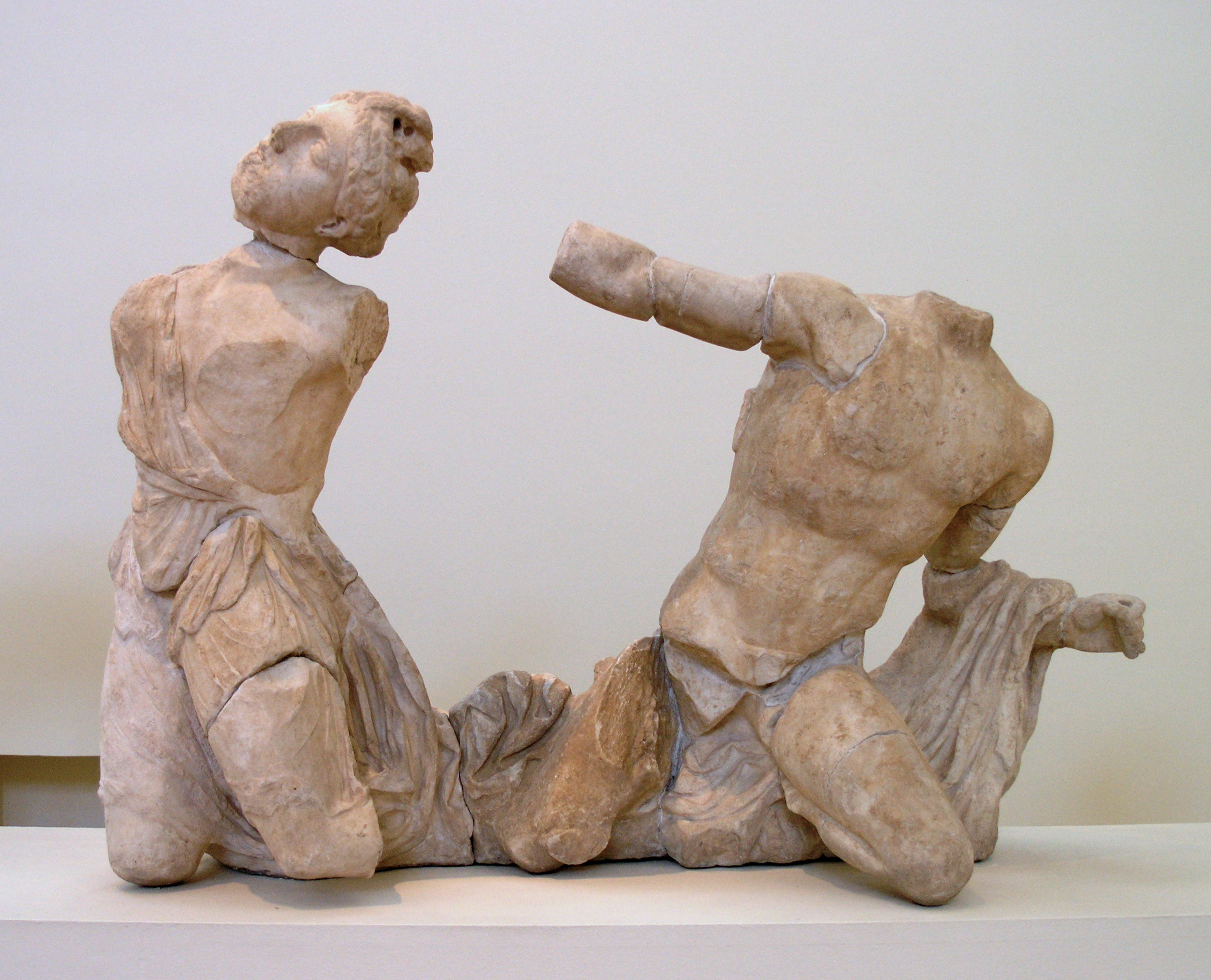 Fighting group on the right of the amazonomachy on the west pediment of the temple of Asklepios. About 380 BC.